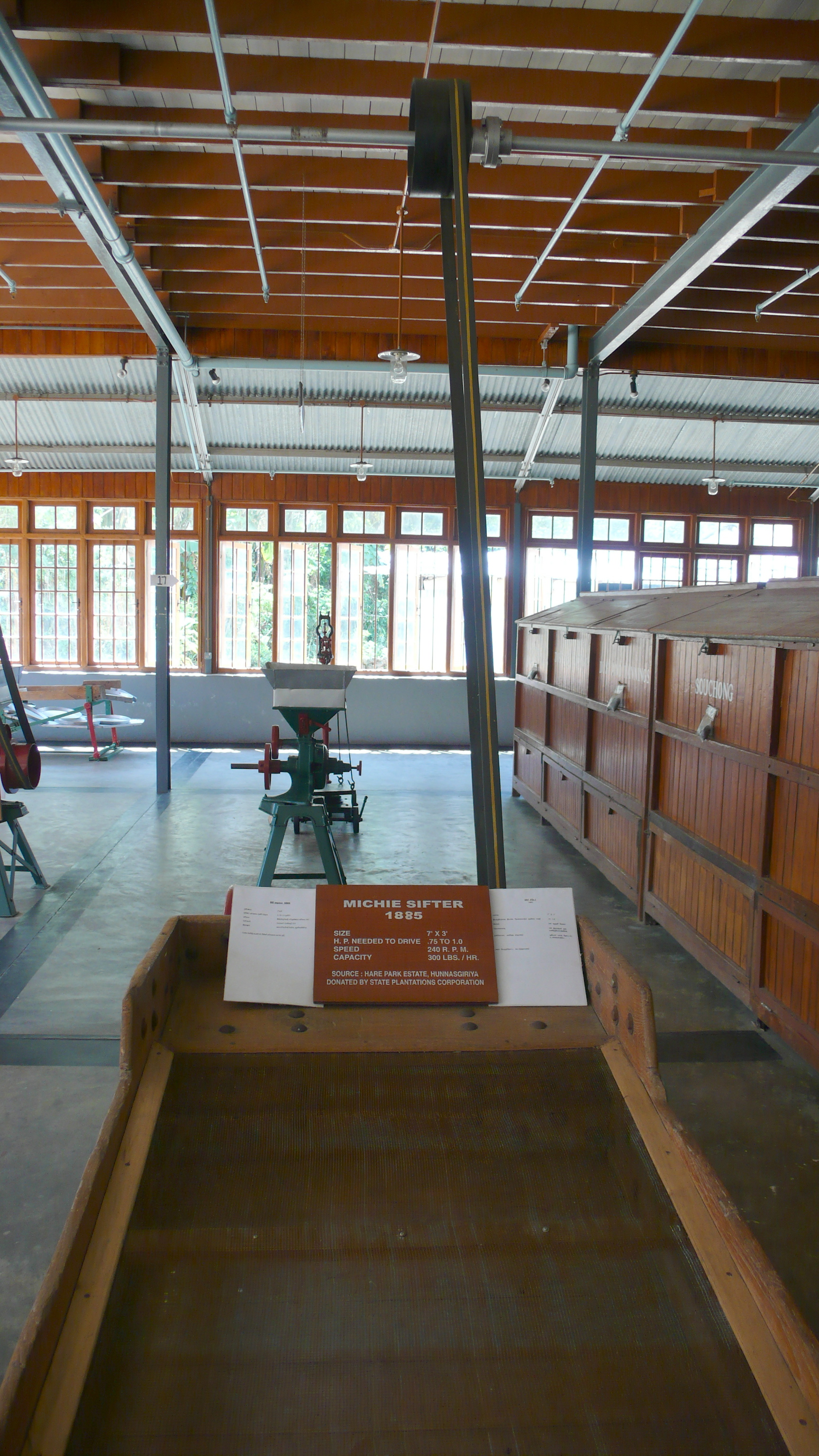 An 1885 Tea Grader in the Kandy Tea Museum, Sri Lanka